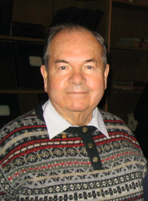 AA Abrikosov